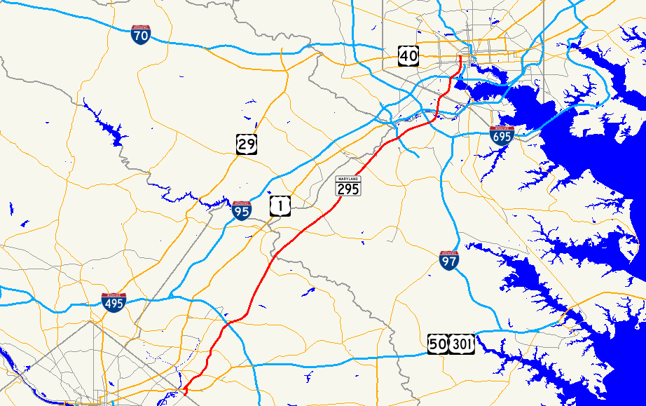 Map of Maryland Route 295